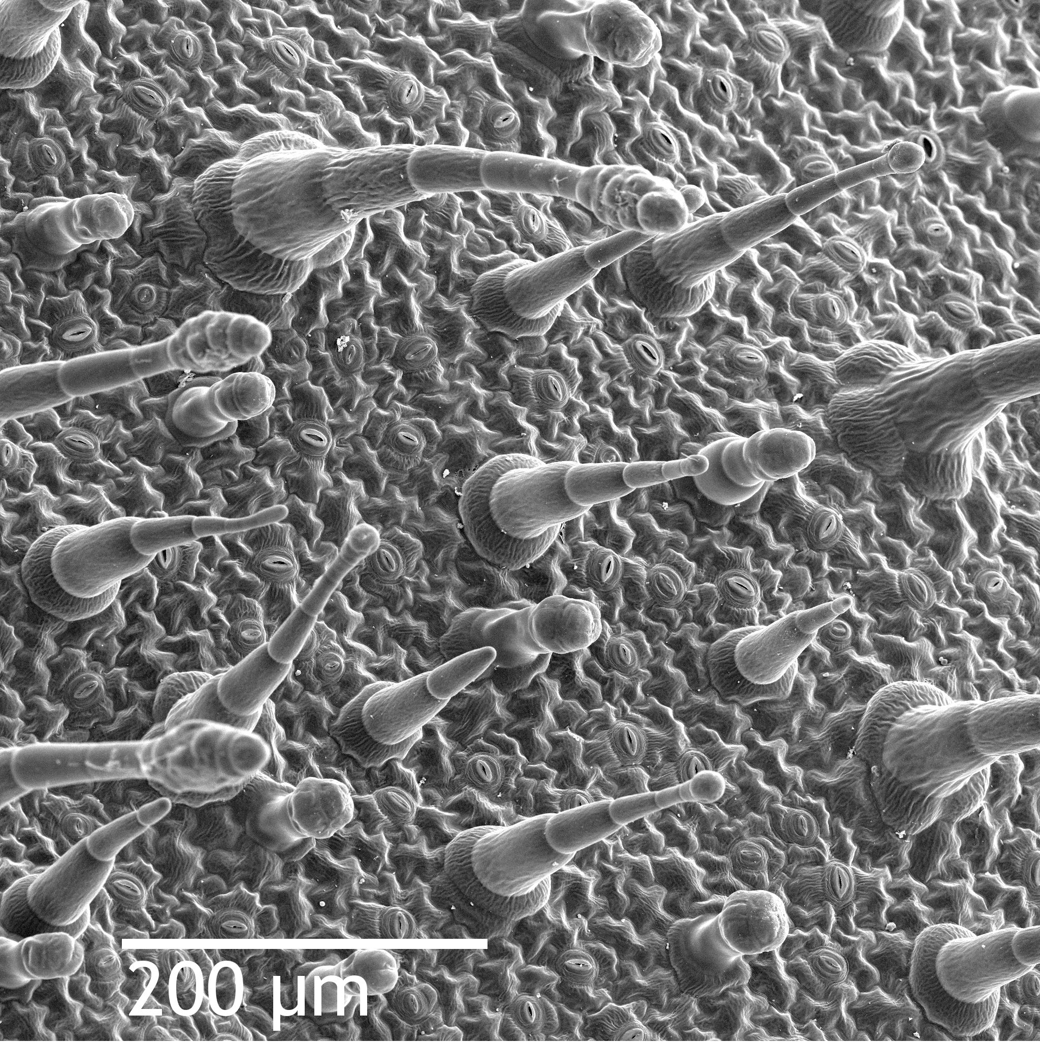 Scanning electron microscope image of Nicotiana alata upper leaf surface, showing tricomes and a few stomates. Instrument: ZEISS962 SEM.